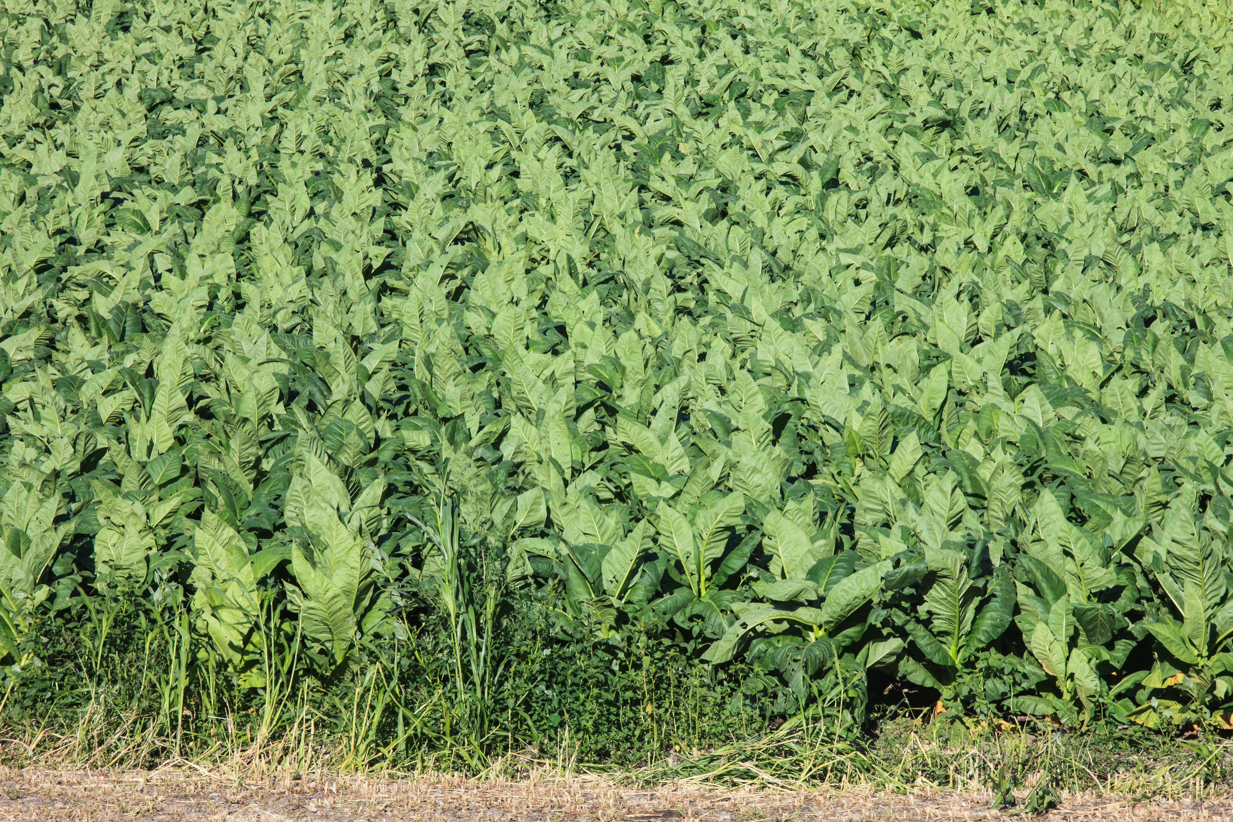 Tobacco plantation, Escaldes, AndorraGalego: Plantación de tabaco. Escaldes-Engordany. Andorra.